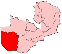 Map of Zambia showing Western province.